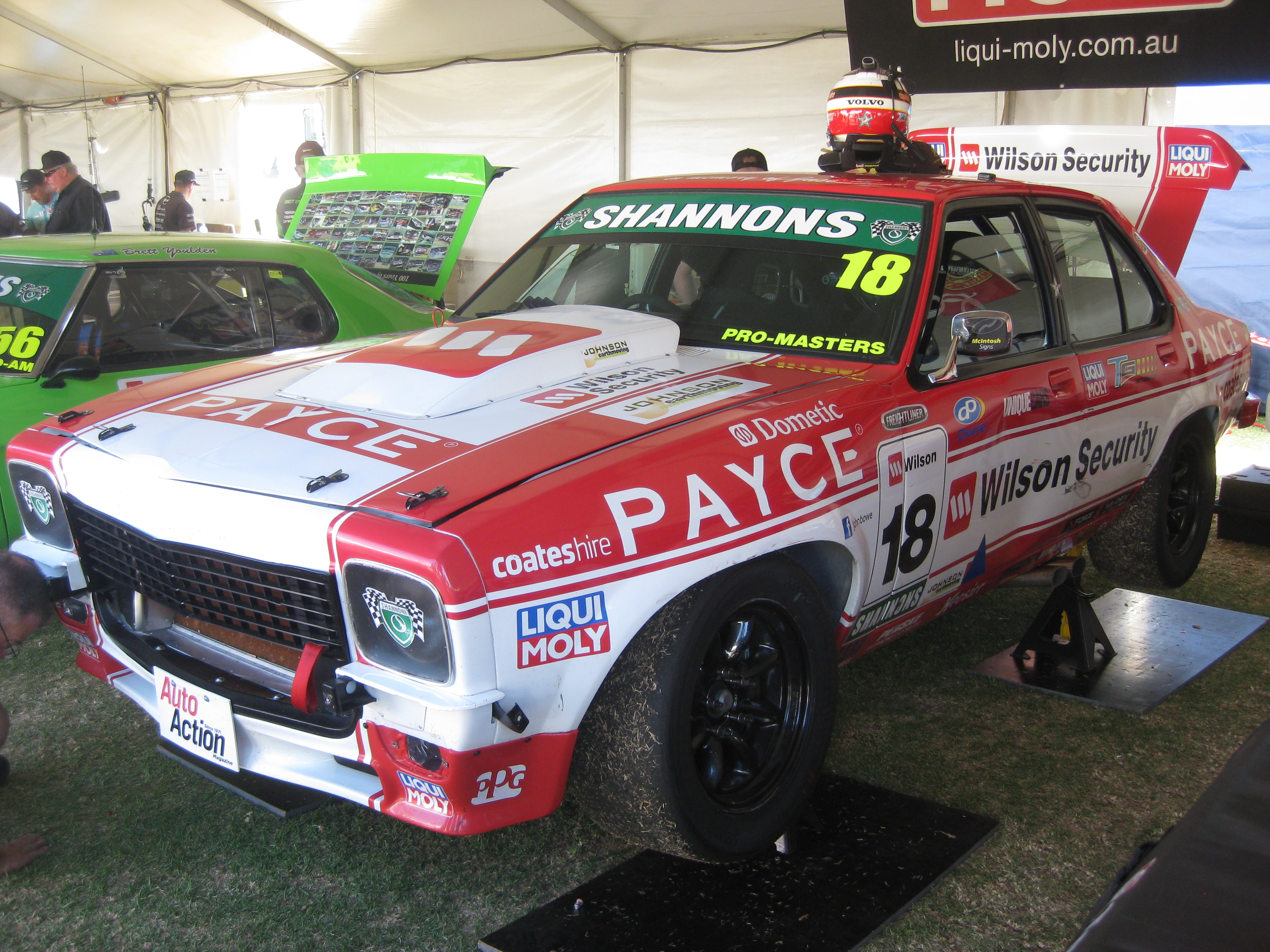 The Holden Torana SL/R 5000 of John Bowe at the Adelaide Parklands Circuit for Round 1 of the 2017 Touring Car Masters.